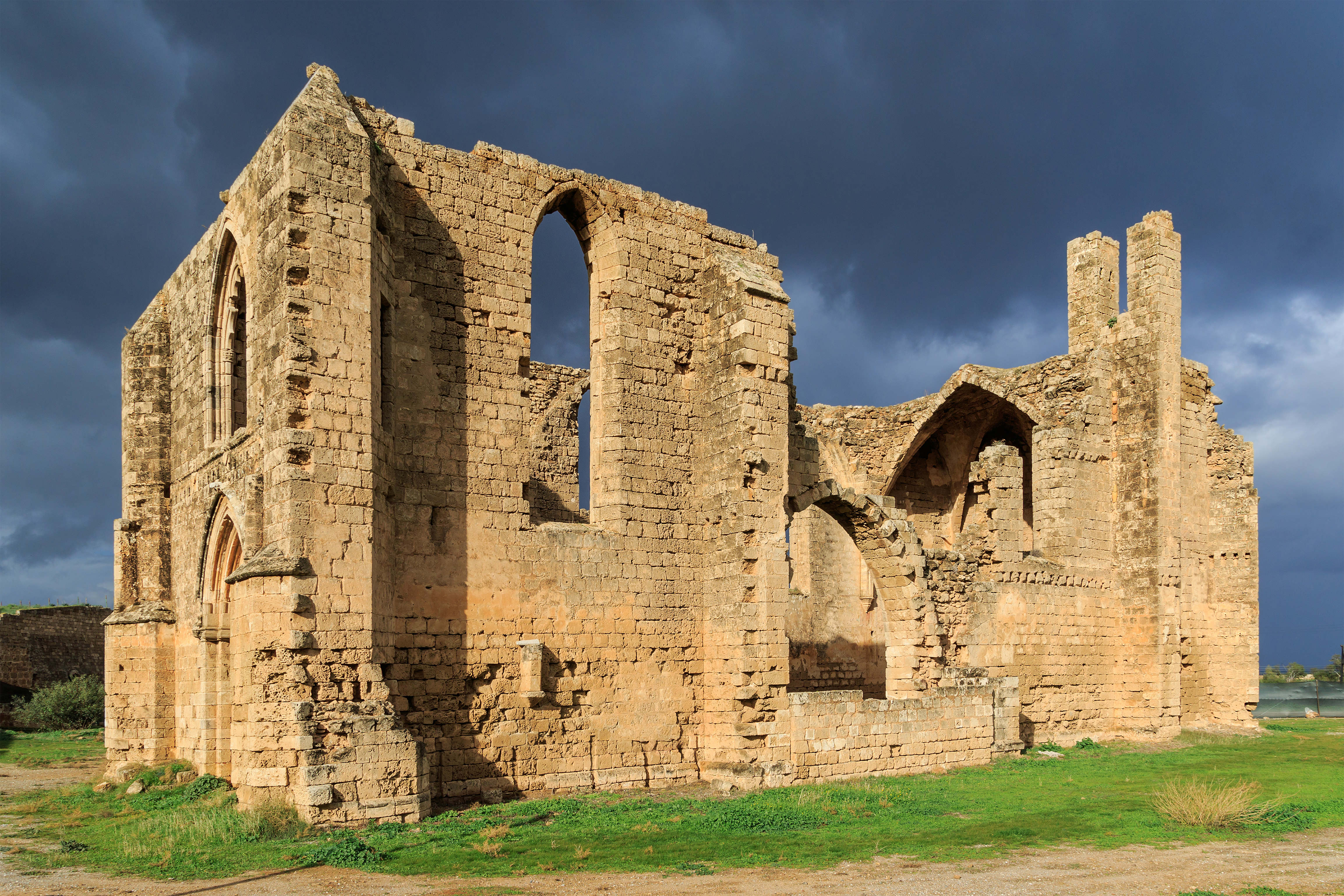 Ruin of Carmelite Church in Famagusta, Cyprus